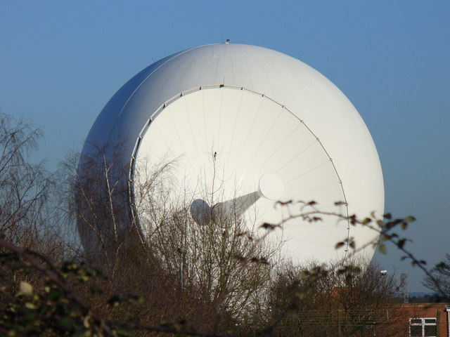 Annular Eclipse of the Dome The satellite dish hides all of the radome - except for its rim area - at RAF Oakhanger.